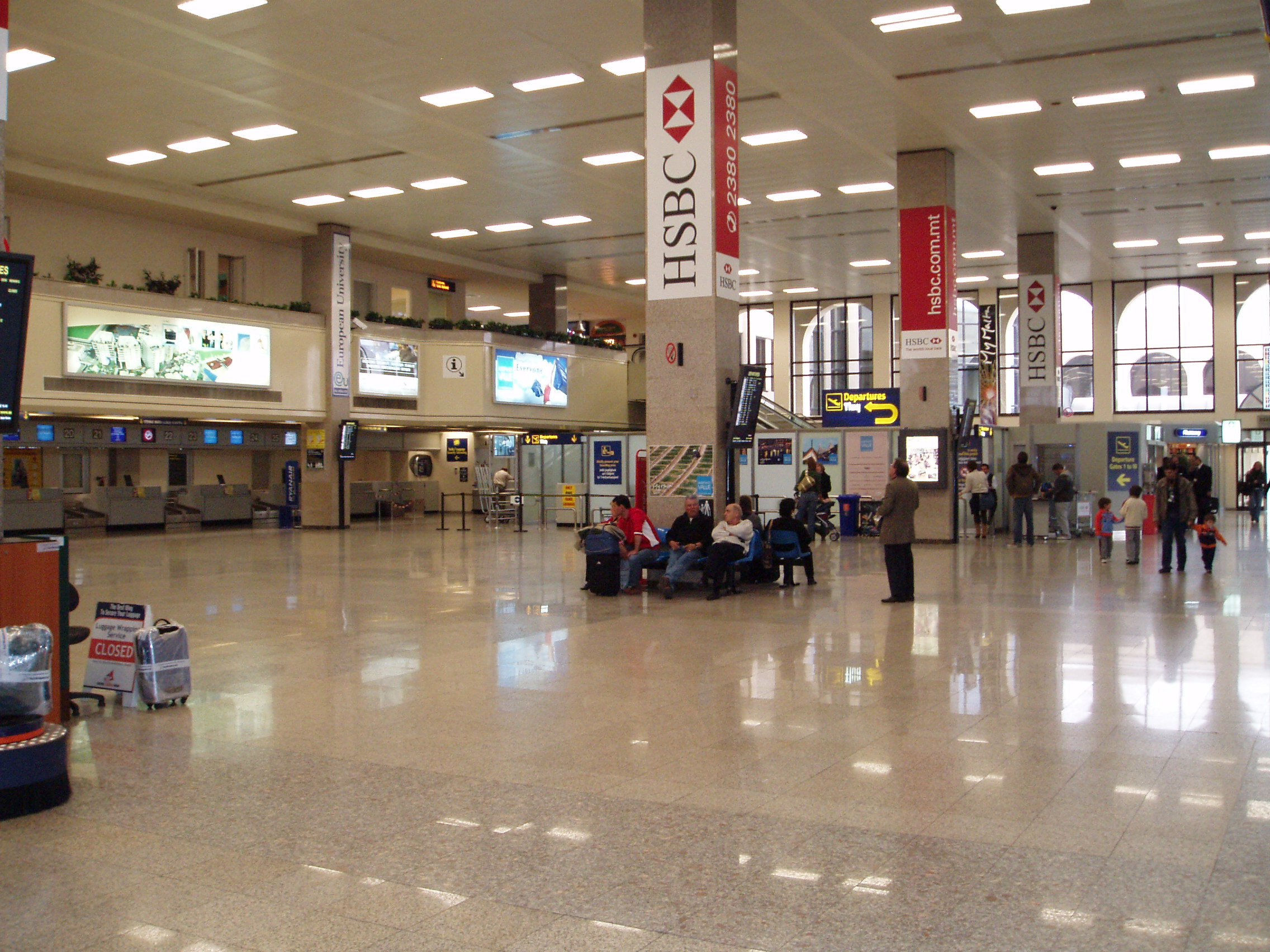 Departures lounge for the Malta International Airport.